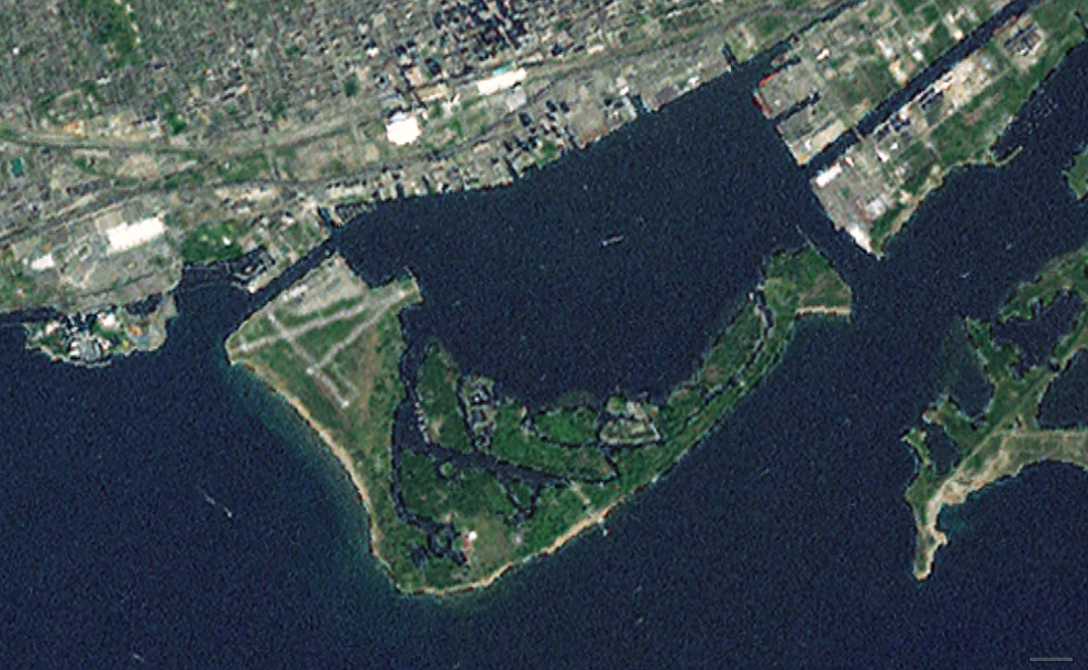 NASA Landsat view of the Toronto Islands, showing Billy Bishop Airport at the left of the larger island. Altitude of 5.9km. Sharpened a bit using GIMP.